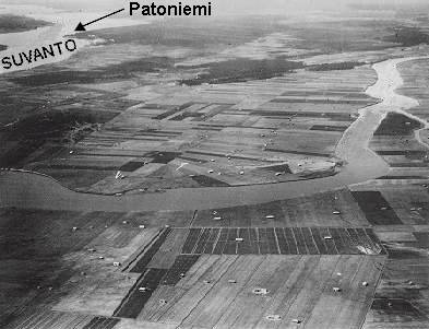 The aerial photograph of the "Koukunniemi" cape in the "Taipale sector", taken from the south, facing north.